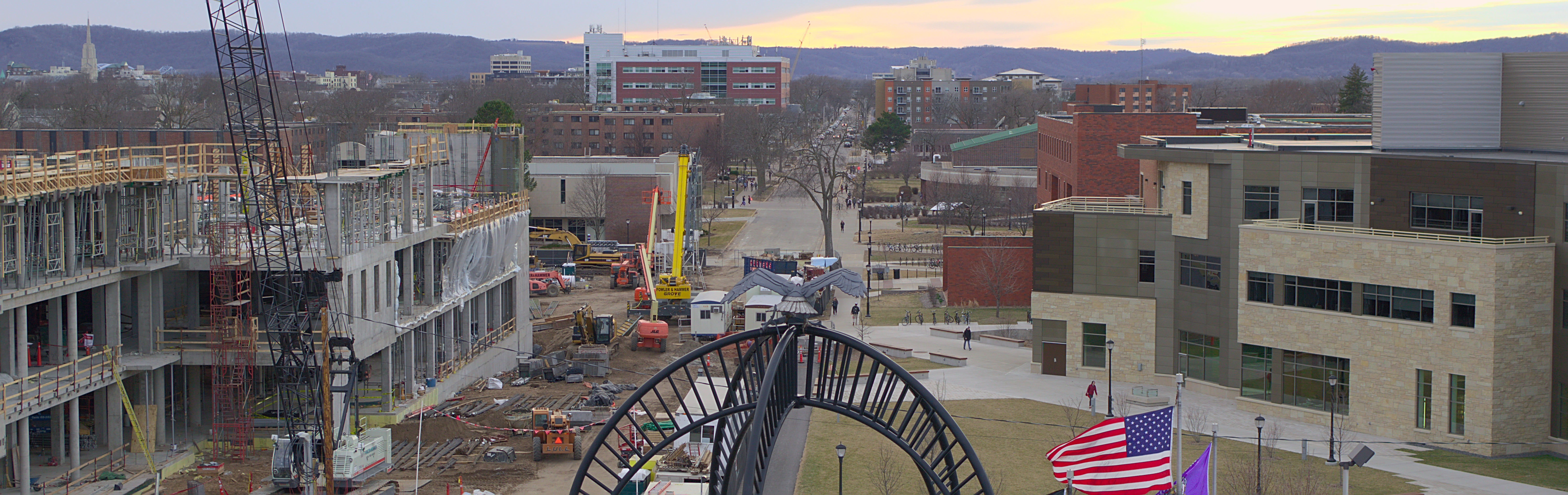 From Left to Right: the new Cowley Science Building, Eugene W. Murphy Library, Drake Hall, Health and Science Center, The Recreation Center, Wimberly Hall, and the U. In the top left corner, you will see a skyline of downtonw La Crosse, including the Cathedral of Saint Joseph the Workman and the Mississippi River Bridge.